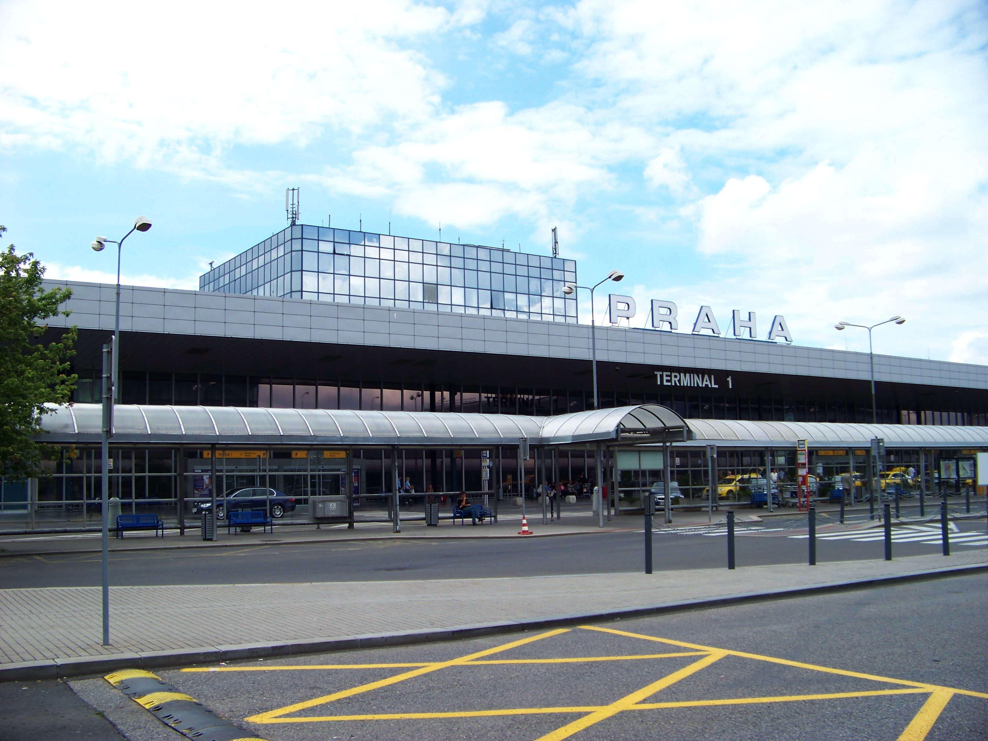 Prague-Ruzyně, the Czech Republic. Airport, terminal 1. - OpenStreetMap(Info)